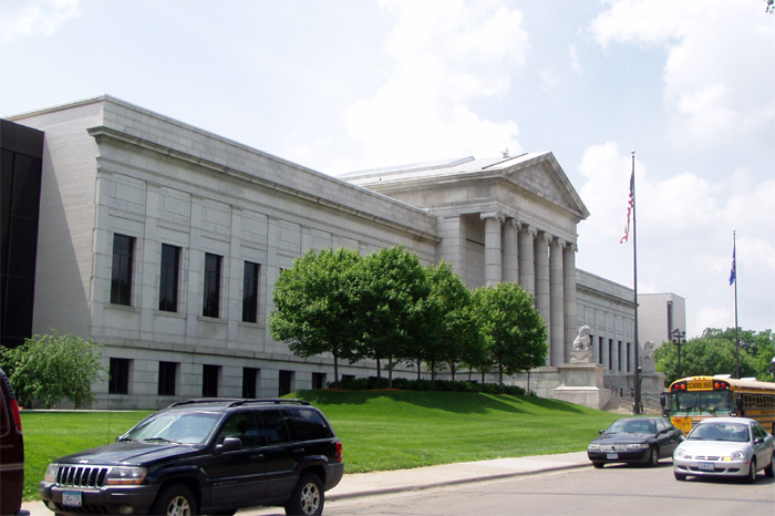 The north side of the Minneapolis Institute of Arts building along 24th Street in Minneapolis, Minnesota in 2006, showing older structures than a new addition on the south side of the building.